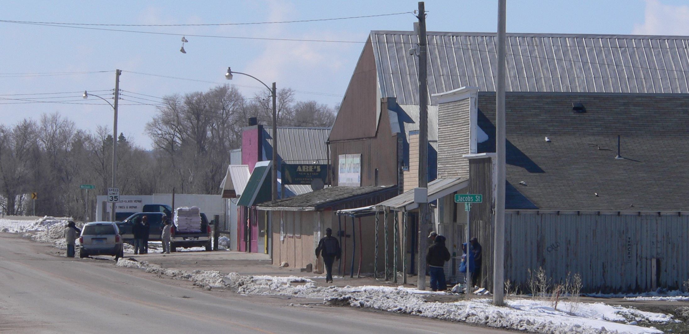 Whiteclay, Nebraska; seen from the north: west side of Nebraska Highway 87.